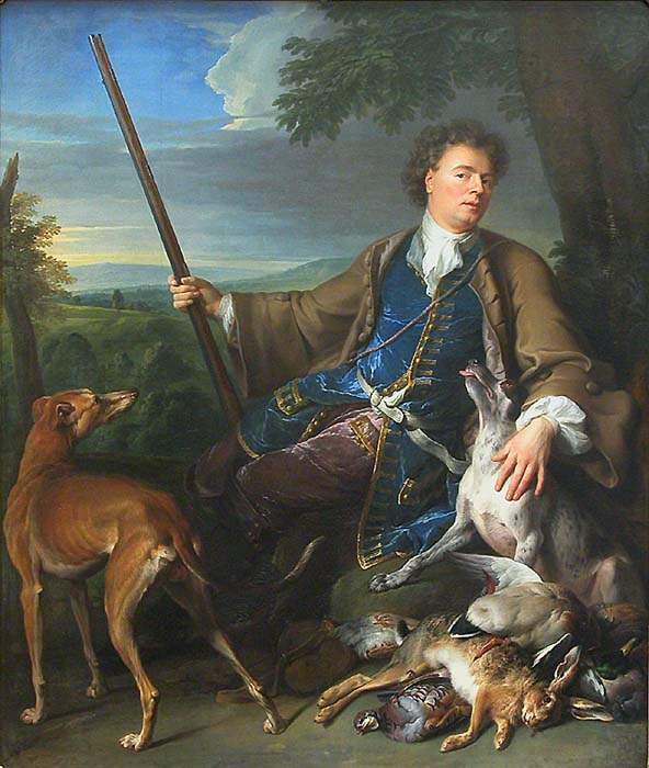 Self-portrait as a hunter